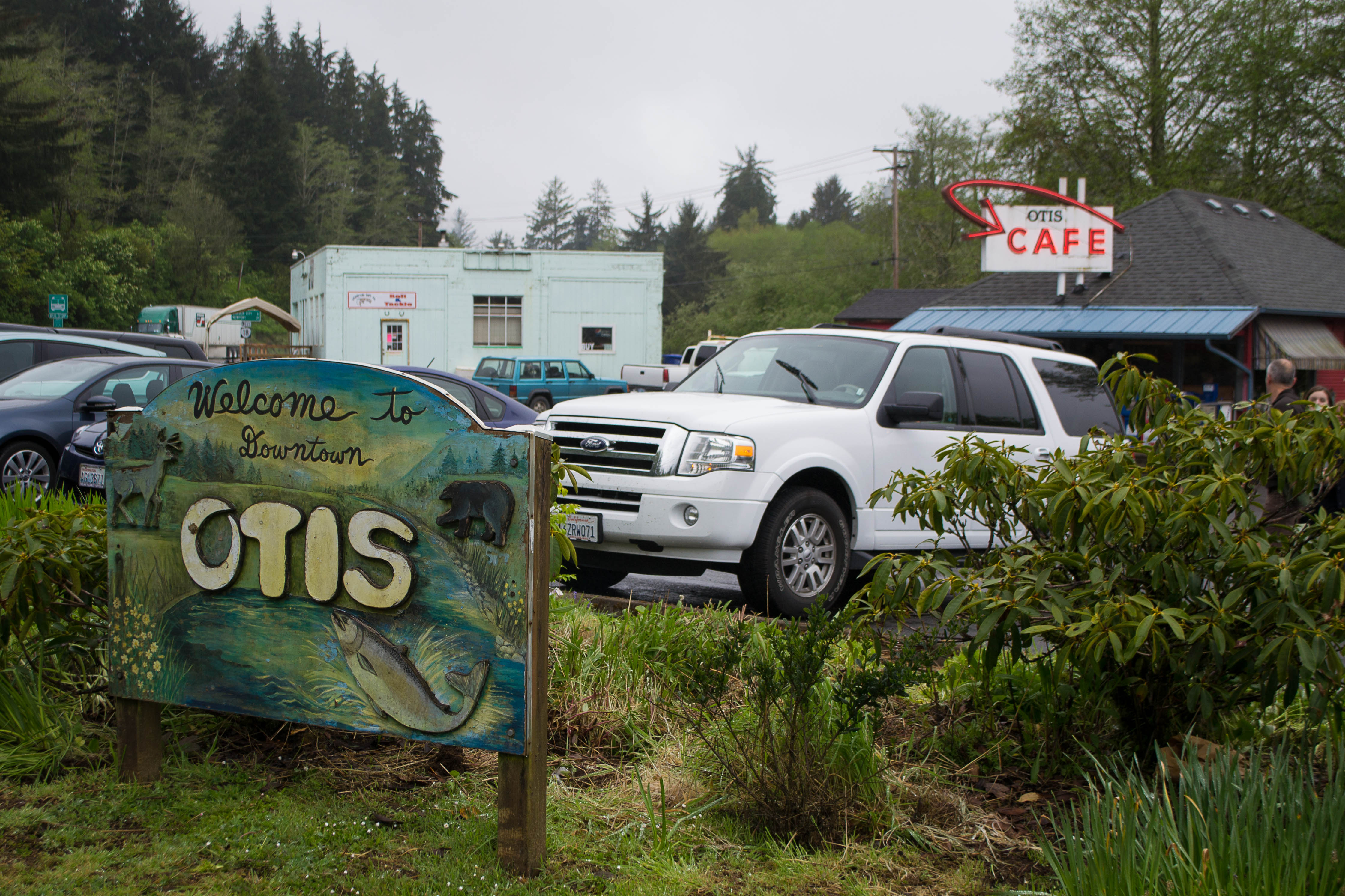 Welcome to downtown Otis